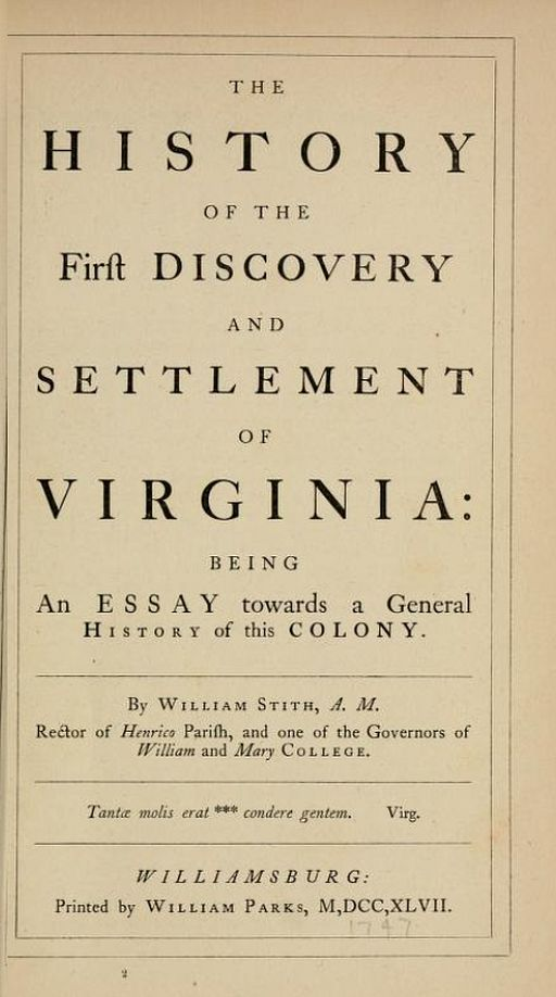 The History of the First Discovery and Settlement of Virginia by William Stith, printed by William Parks 1747